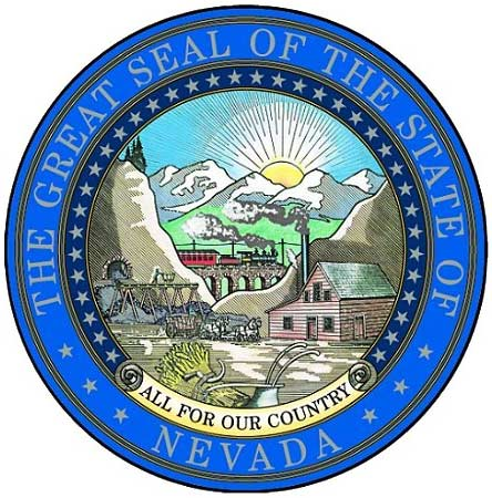 State Seal of Nevada